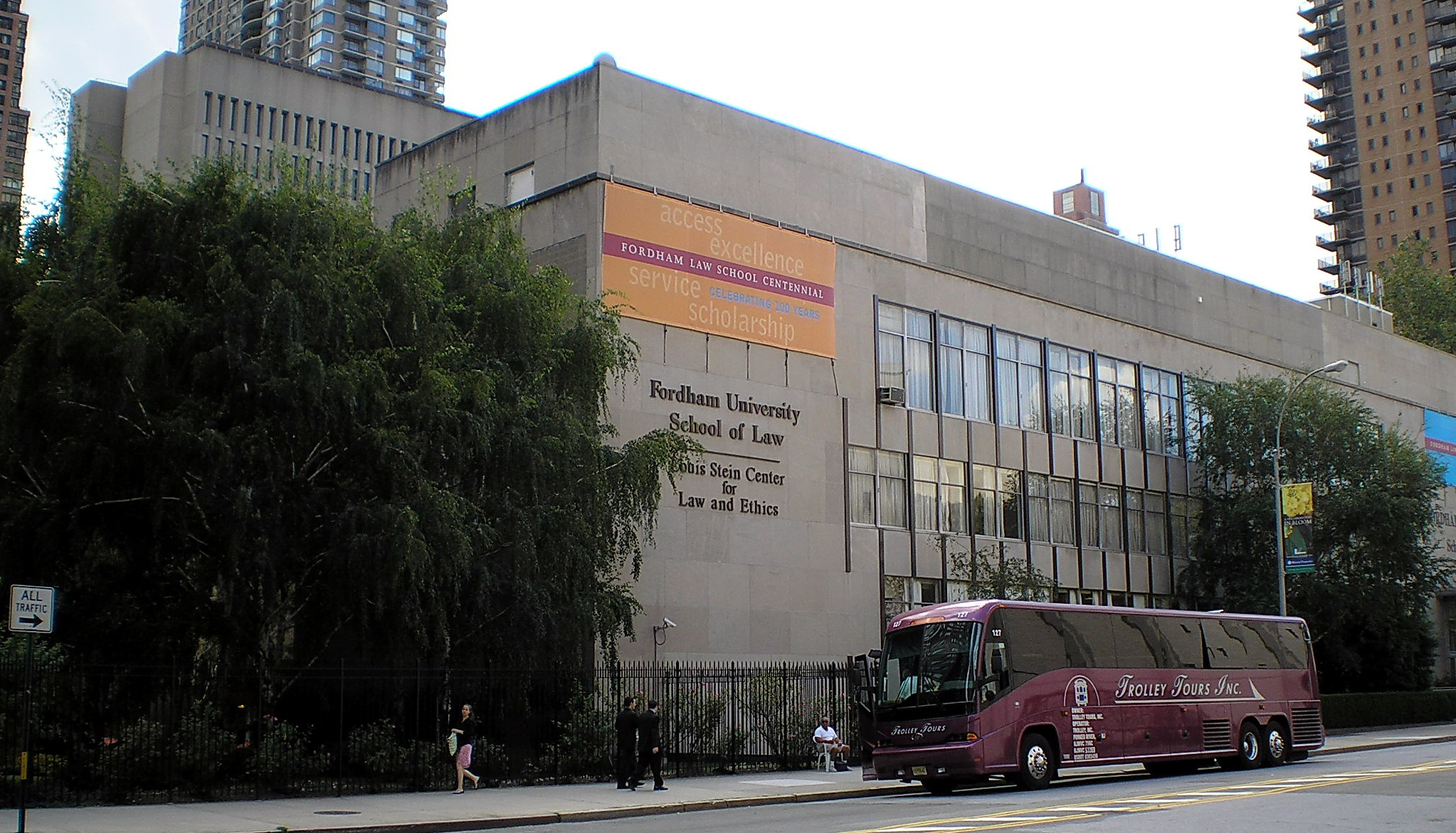 Fordham Law School by David Shankbone, New York City